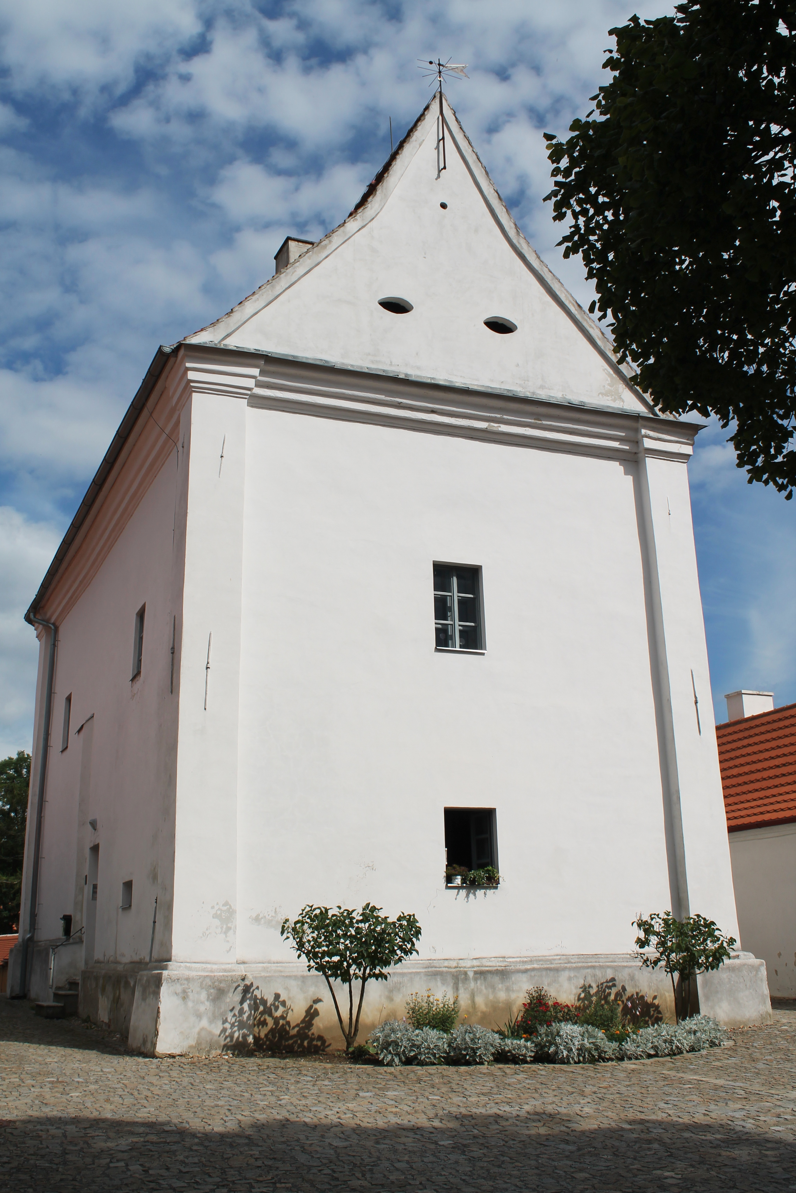 Chapel of Saint Mary of Help, Brtnice, Jihlava District, Czech Republic